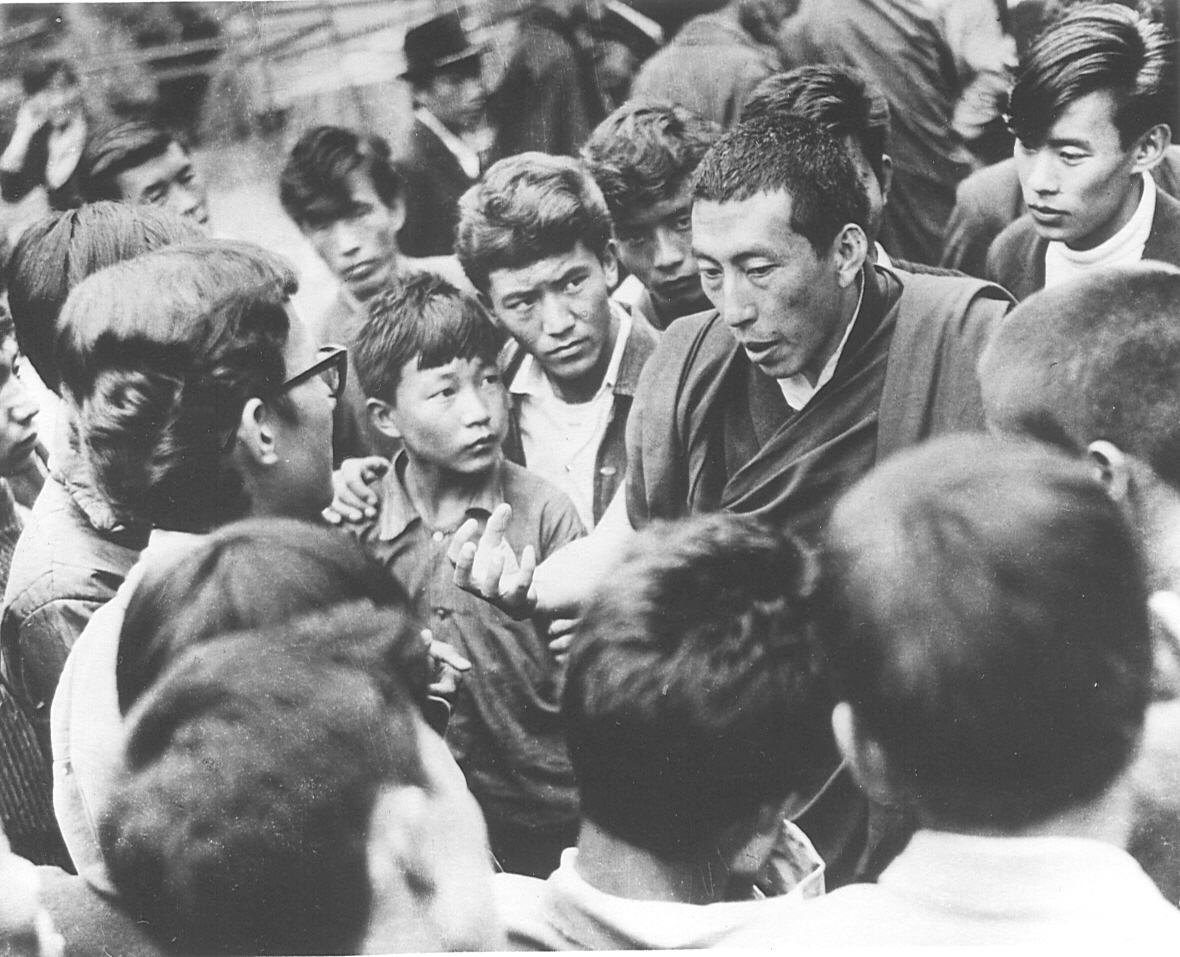 Samdhong Rinpoche in a crowd